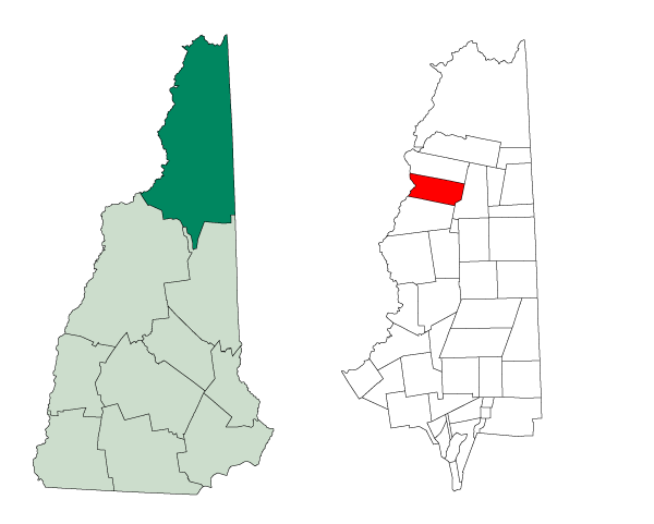 Map of a municipality in Coos County, New Hampshire